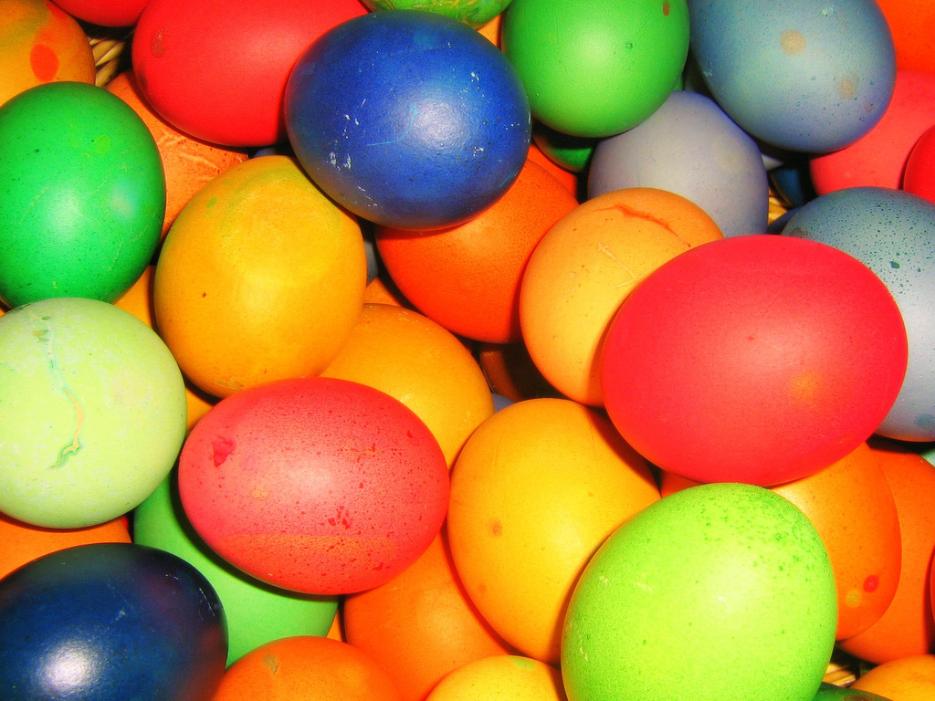 Diversity